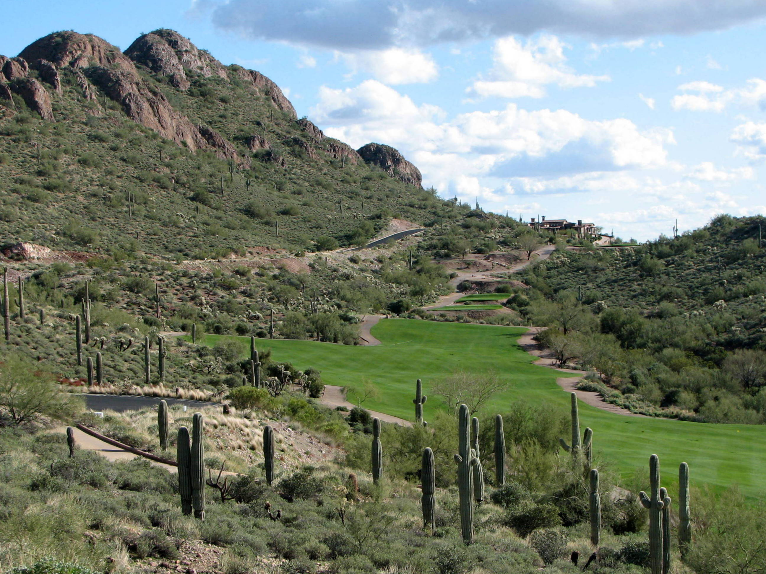 Hole #4, Gold Canyon Golf Club, Dinosaur course, Gold Canyon, USA